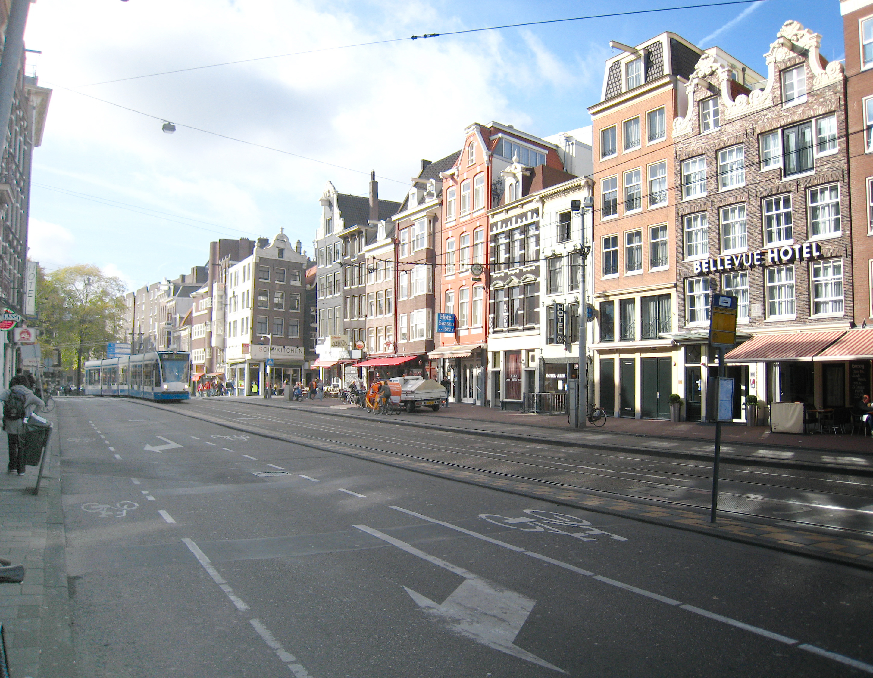 The Martelaarsgracht is a street in Amsterdam.